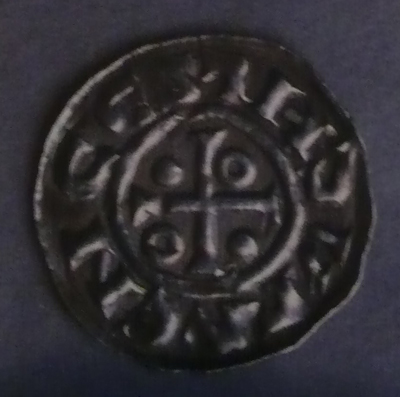 denier of Jaromir of Bohemia